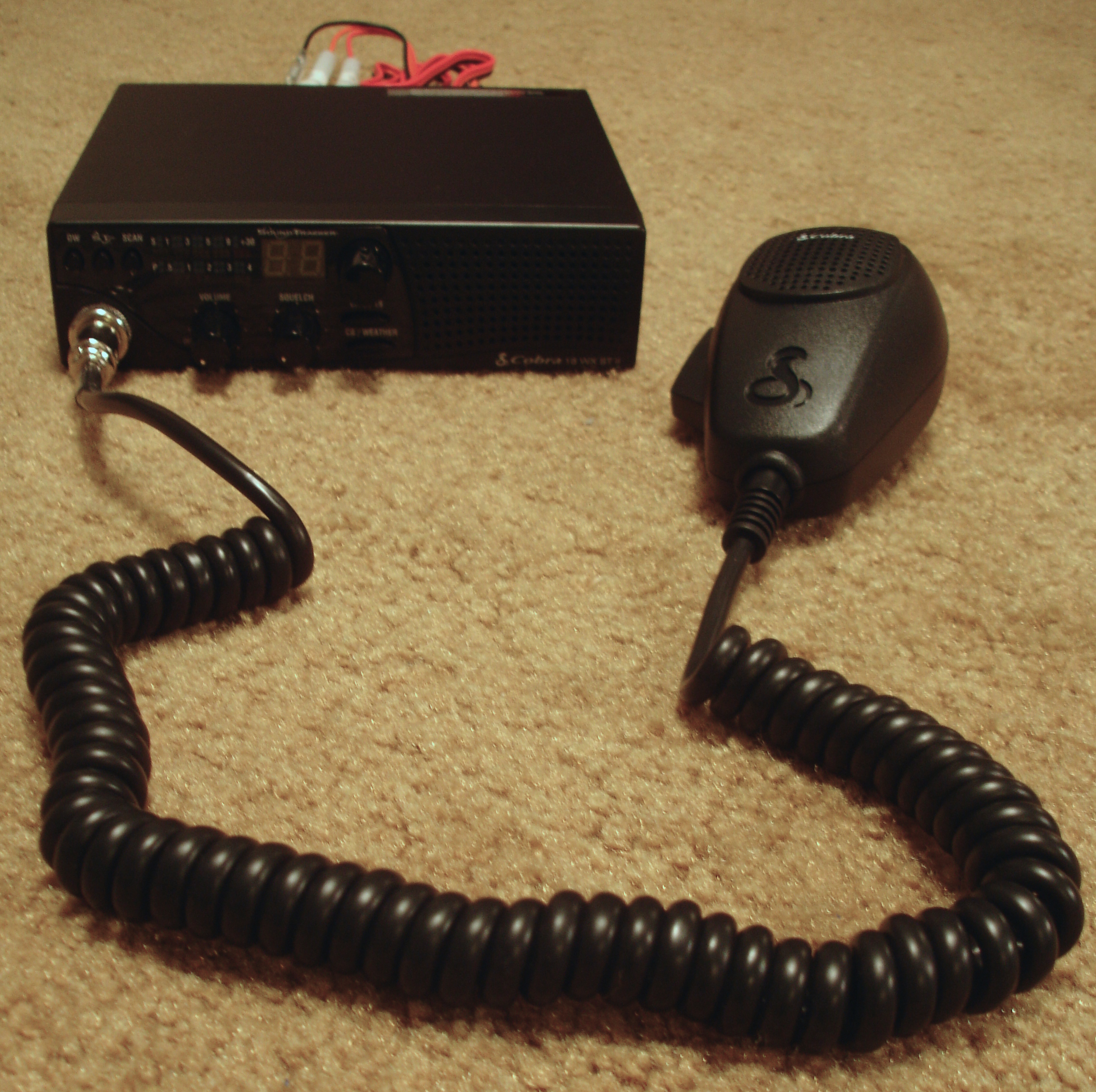 Cobra 18 WX ST II mobile Citizens' band radio, with a toggle to receive NOAA Weather Radio All Hazards, scanning the CB band, and a toggle for Channels 9 and 19. It shares physical dimensions with a single DIN dash mount and includes a front-firing speaker. Shown with included microphone.